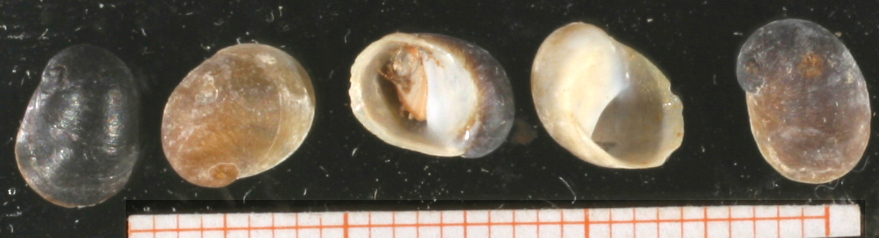 Photo of Theodoxus transversalis. Scale in mm. Austria: Donau near Kuchelau, near Wien.